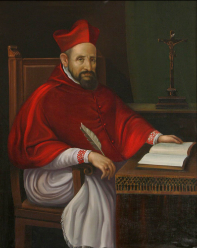 Saint Robert Bellarmine, Jesuit and Doctor of the Church Born 4 October, 1542, Montepulciano, Italy Died 17 September, 1621, Rome, Italy Venerated in Catholicism Beatified 13 May 1923 by Pope Pius XI Canonized 29 June 1930 by Pope Pius XI